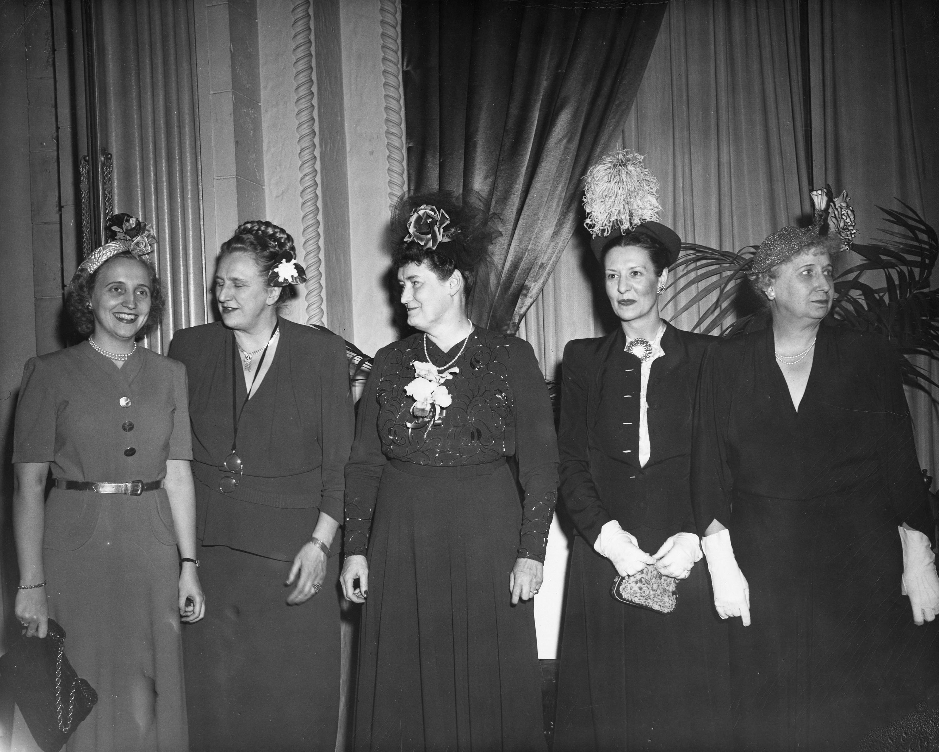 First Lady Bess W. Truman at a party given by journalist Esther Van Wagoner Tufty in Washington, D.C. in honor of India Edwards, Executive Director of the Women's Division of the Democratic Party. From left to right: Margaret Truman, Esther Tufty, India Edwards, Eda (Mrs. Charles) Brannan, and Mrs. Truman.